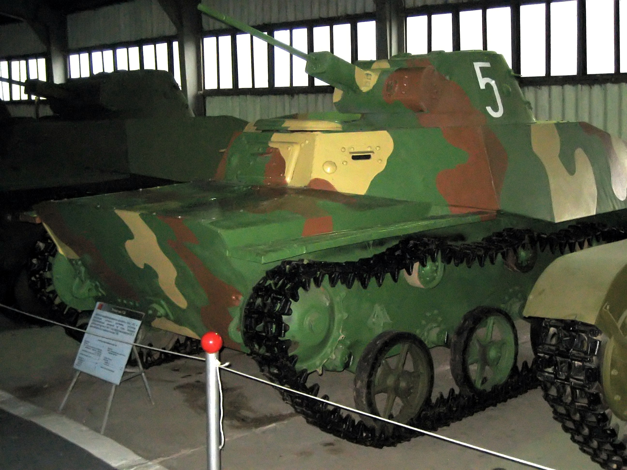 Soviet light infantry tank T-30, displayed in Kubinka Tank Museum. Photo taken on September 9, 2007. Source: Photo by me, User:Saiga20K.